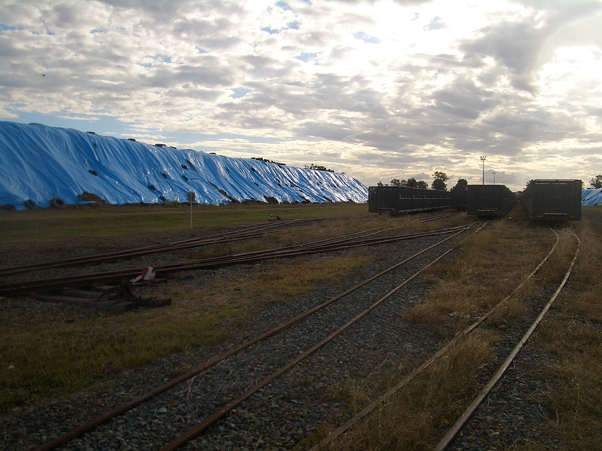 The tracks of the narrow-gauge sugarcane railway, near Proserpine Sugar Mill. Blue plastic covers heaps of bagasse (mulch-like sugarcane fiber). The rail cars are empty, as this is off-season